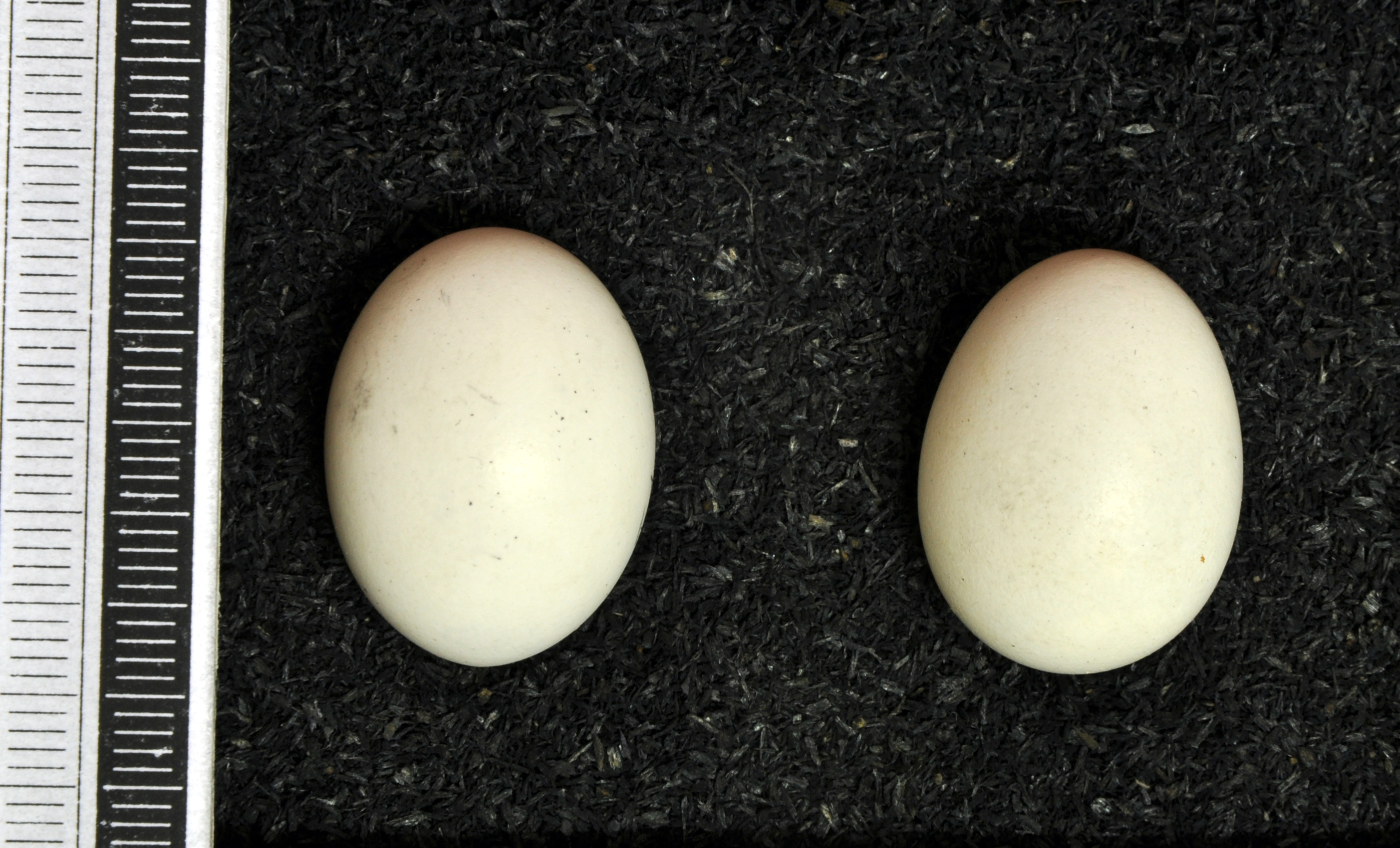 Laughing dove Streptopelia senegalensis , egg, Coll. Museum Wiesbaden